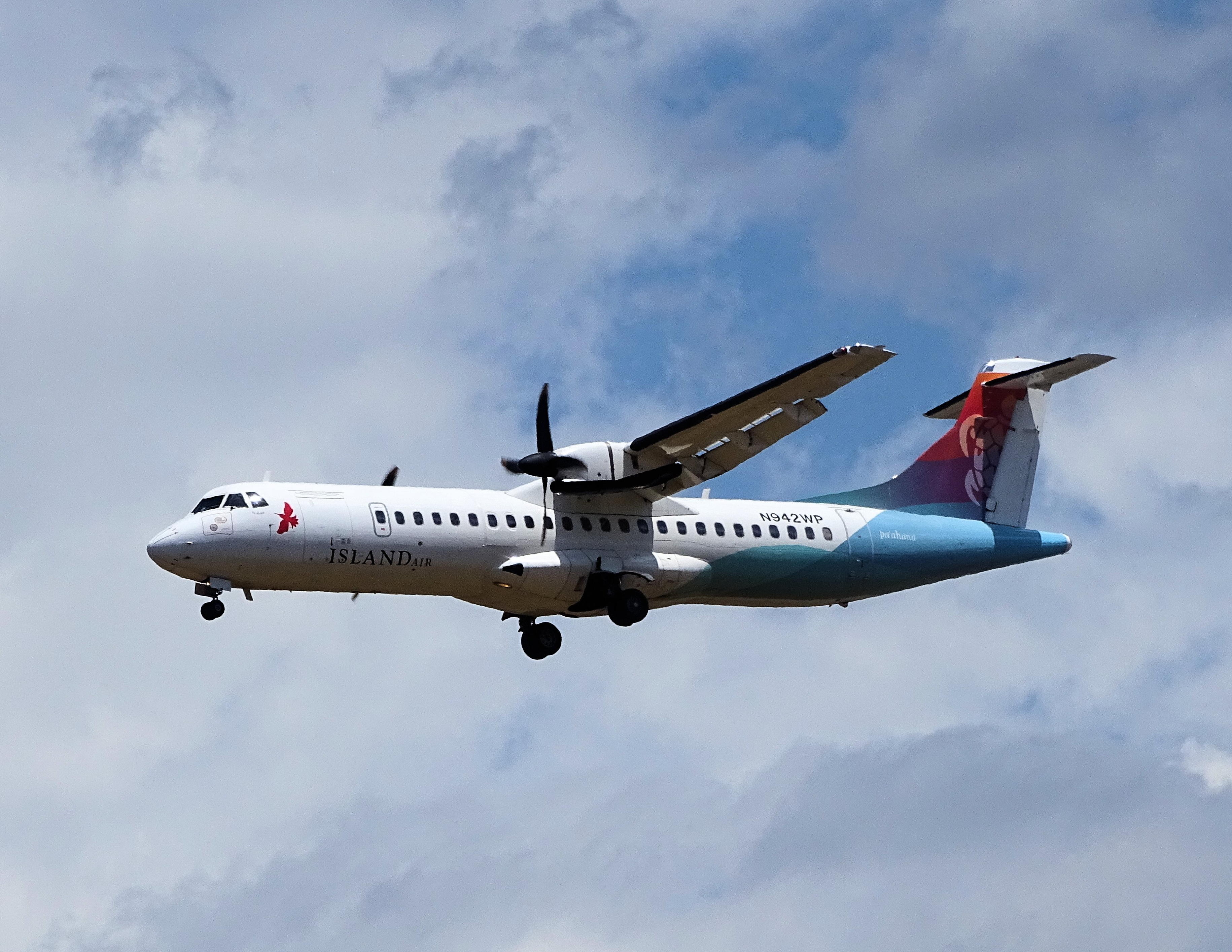 Island Air ATR 72 N942WP